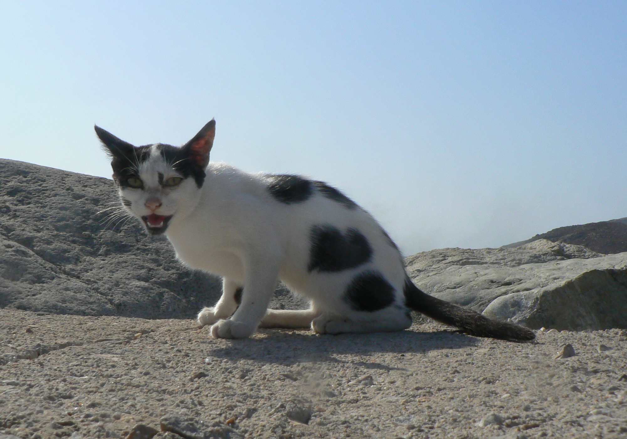 Cropped version of Image:Wild Cat on Serifos.jpg